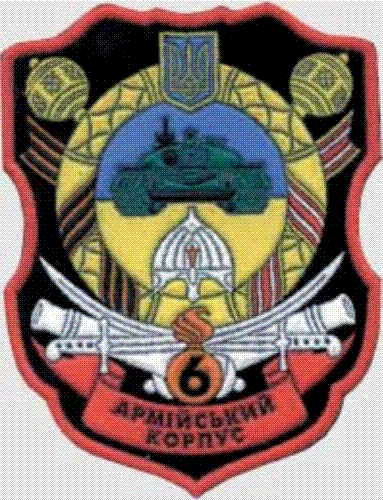 Shoulder Sleeve Insignia of the Ukrainian Army 6th Army Corps Command